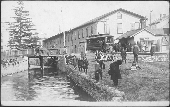 Kids fishing in Hespeler, Ontario, next to a streetcar stop.